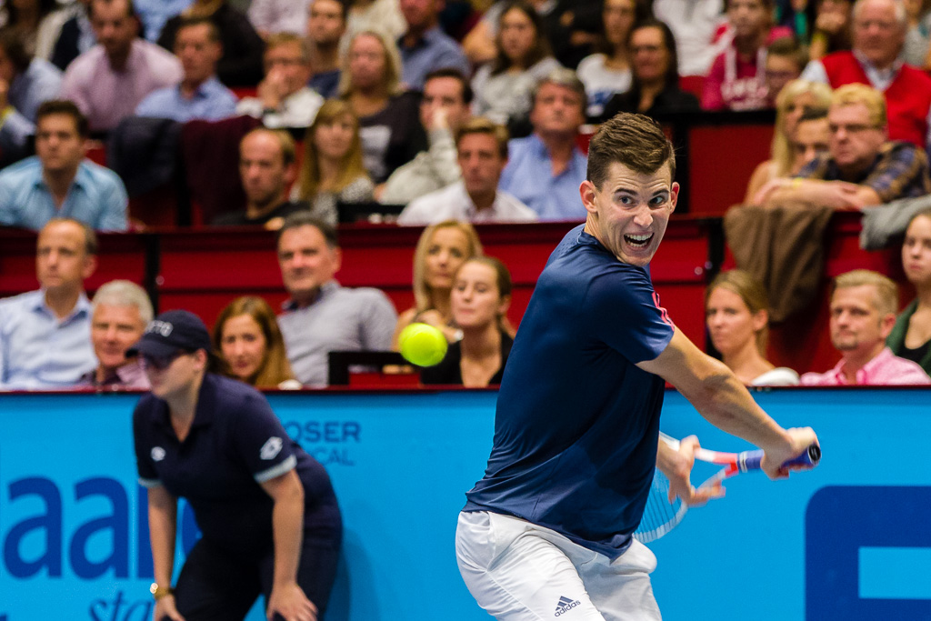 Dominic Thiem (AUT) vs. Gerald Melzer (AUT) 1st round at Erste Bank Open ATP World Tour 500 in Vienna 25.10.2016